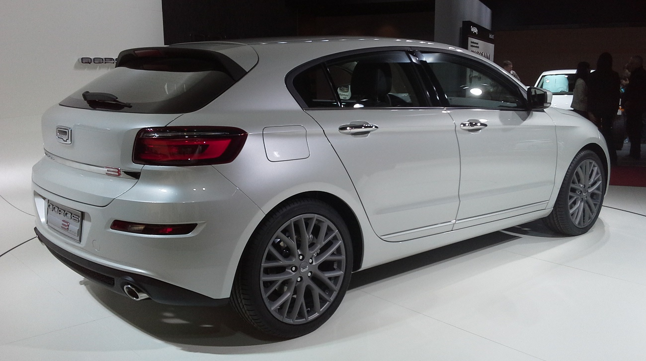 Qoros 3 hatch photographed at the 2014 Geneva Motor Show, Geneva, Switzerland.